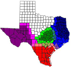 Regions of Texas